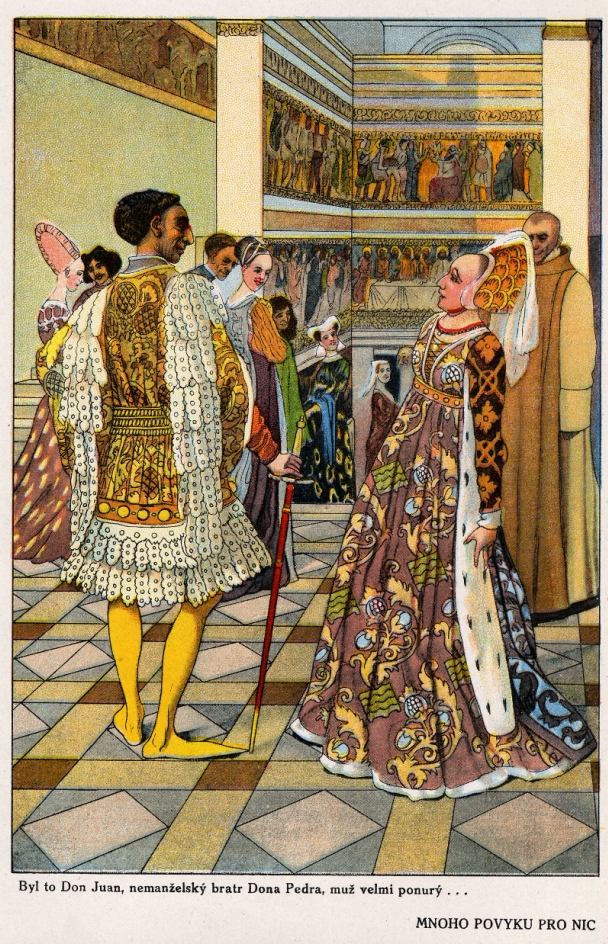 Illustration by Czech painter Artuš Scheiner for Shakespeare’s Much Ado About Nothing Česky: Ilustrace Artuše Scheinera k Shakespearově hře Mnoho povyku pro nic